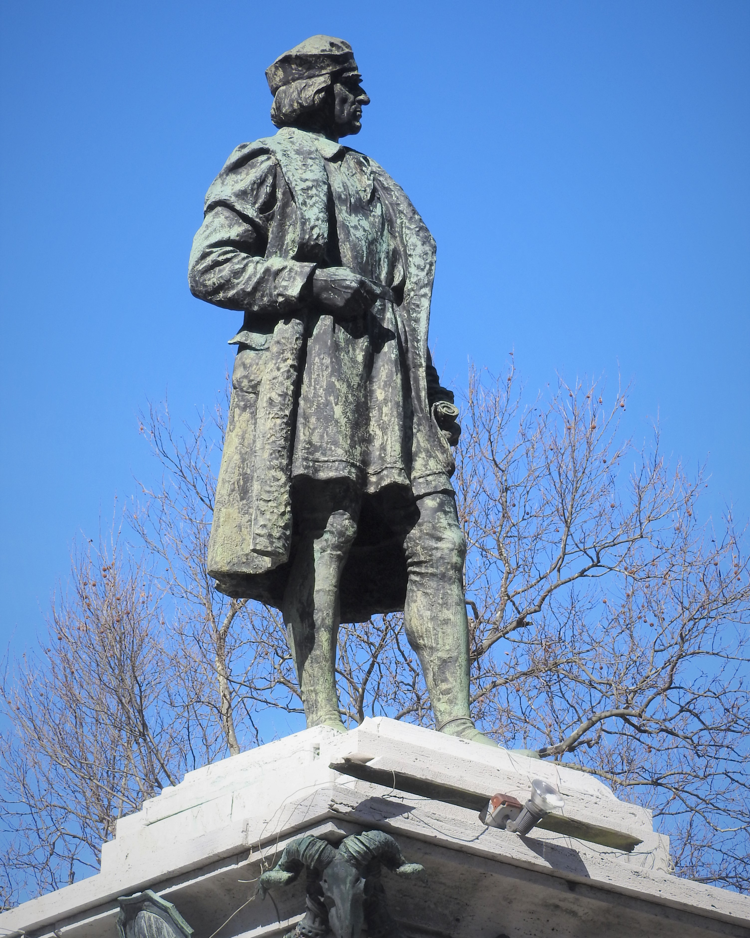 Looking northwest from Broad Street on a sunny midday